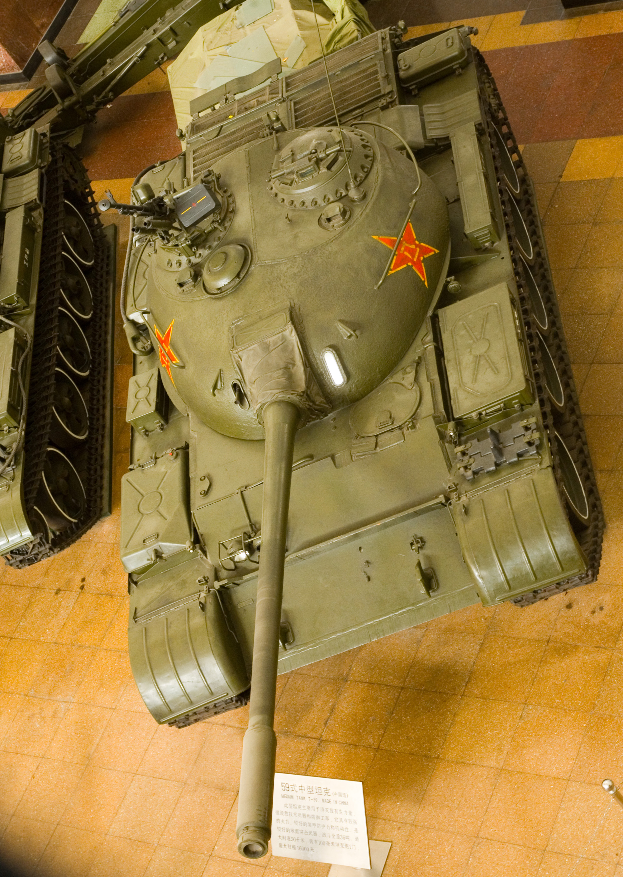 A Chinese Type 59 tank at the Beijing Military Museum